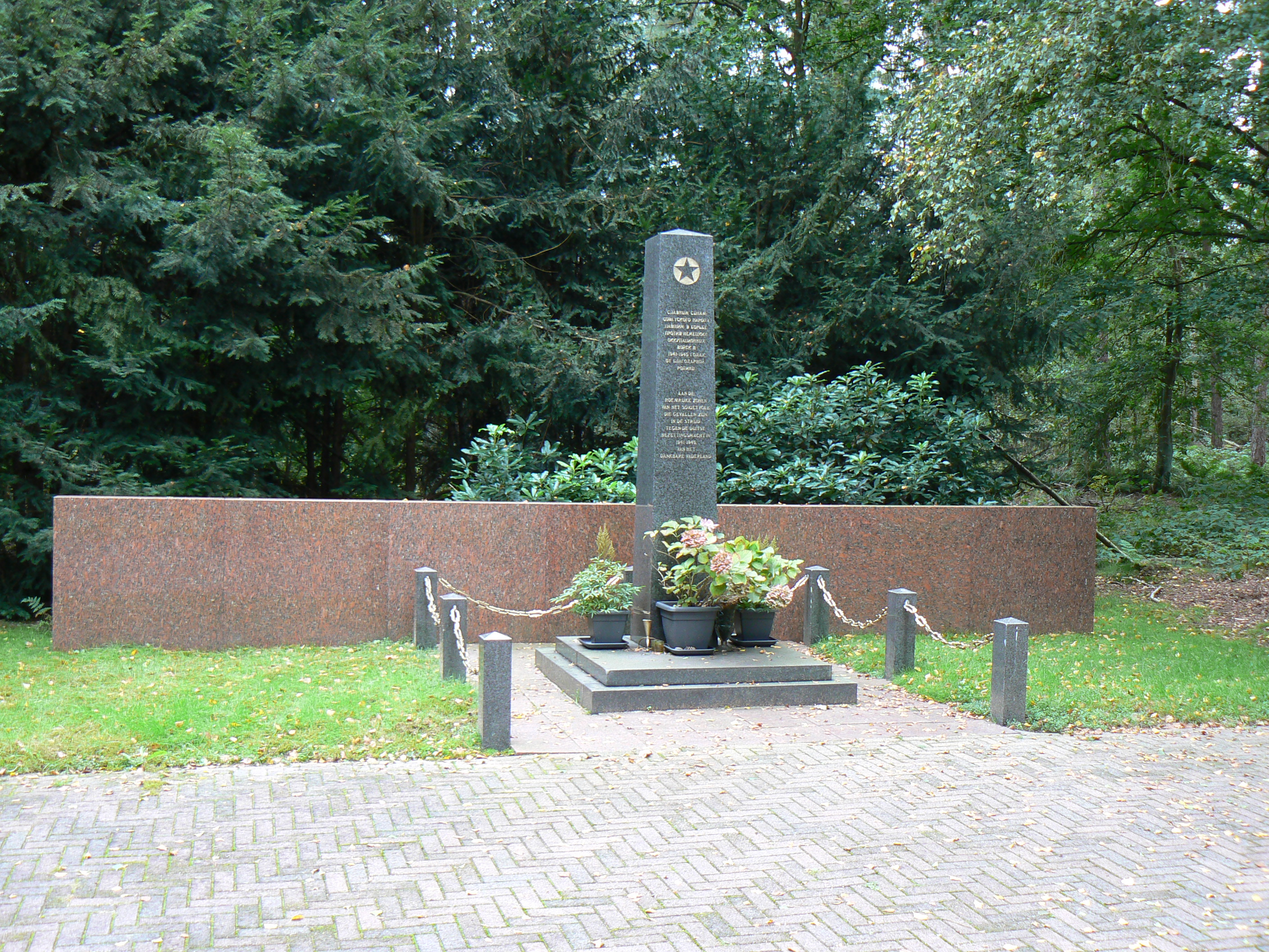 Memorial Russian victems Kamp Amersfoort in the Netherlands